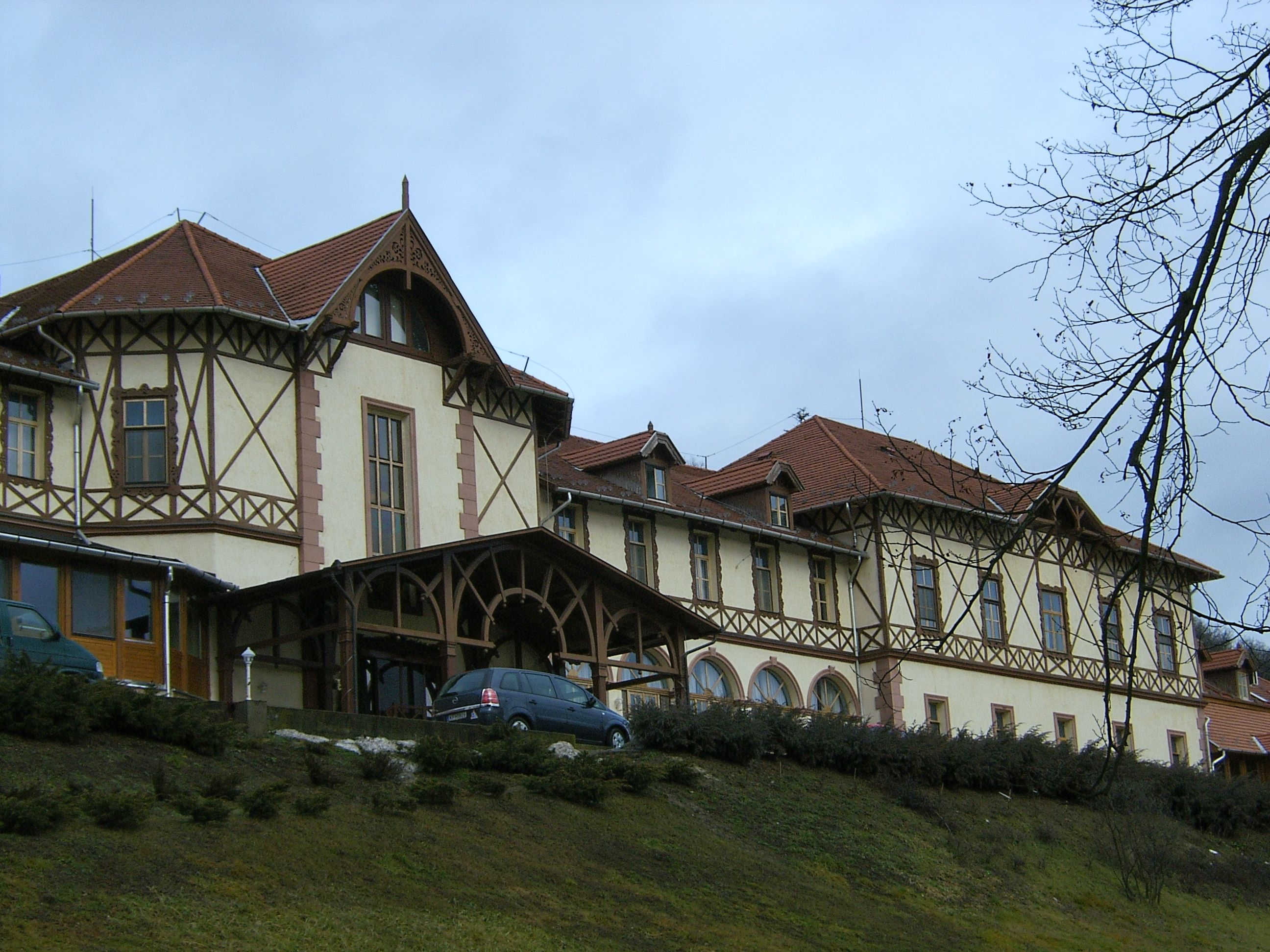 Hotel Empress Elisabeth of Austria Park, former Parádfürdő post office